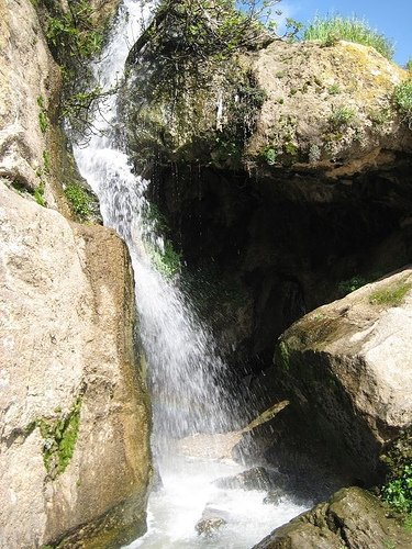 Waterfall near Kesra, Tunisia